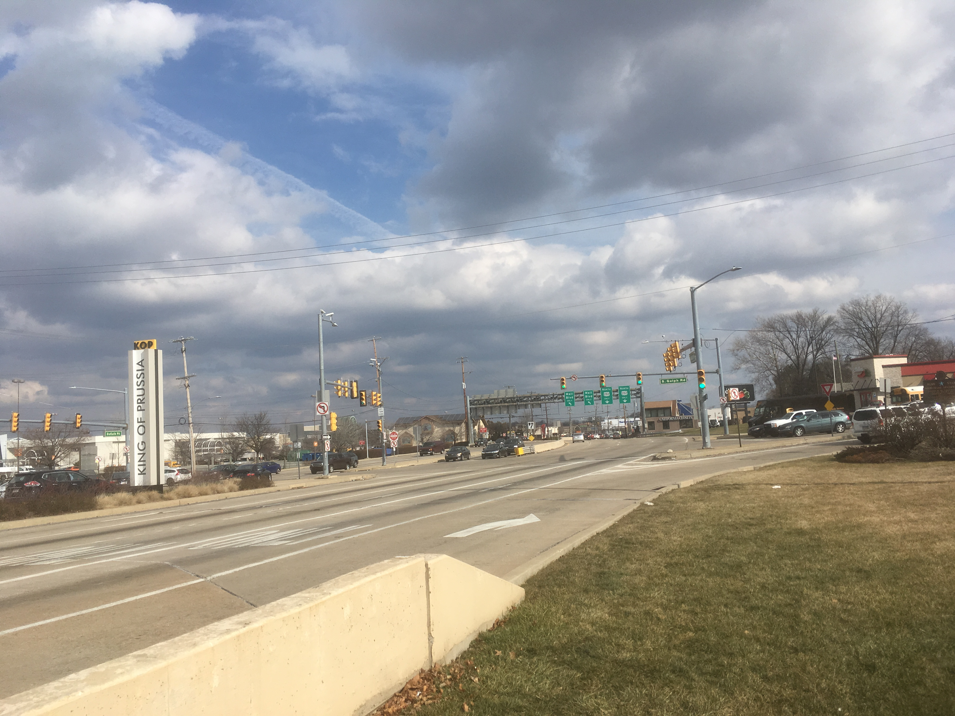 Northbound U.S. Route 202 (Dekalb Pike) at the intersection with Gulph Road in King of Prussia, Pennsylvania